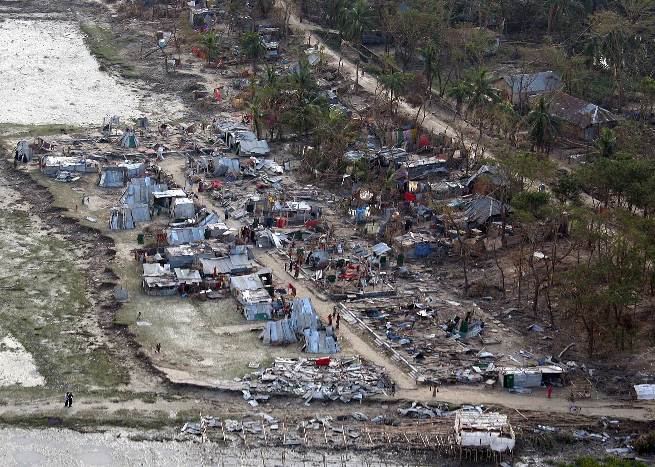 BANGLADESH (Nov. 24, 2007) An aerial view of damage to villages and infrastructure following Cyclone Sidr, which swept into southern Bangladesh Nov. 15. The amphibious assault ship USS Kearsarge (LHD 3), as well as elements of Amphibious Squadron 8 and the 22nd Marine Expeditionary Unit (MEU) Special Operations Capable (SOC) arrived off the coast of Bangladesh Nov. 23 to support ongoing disaster relief operations. U.S. Marine Corps photo by Sgt. Ezekiel R. Kitandwe (RELEASED)